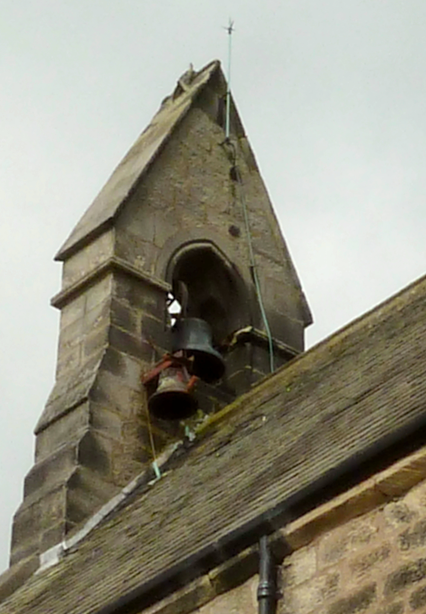 Church of St Thomas the Apostle, Anglican parish church at Killinghall, North Yorkshire, England. Designed by William Swinden Barber in 1879. East side of bell gable which tops the west wall